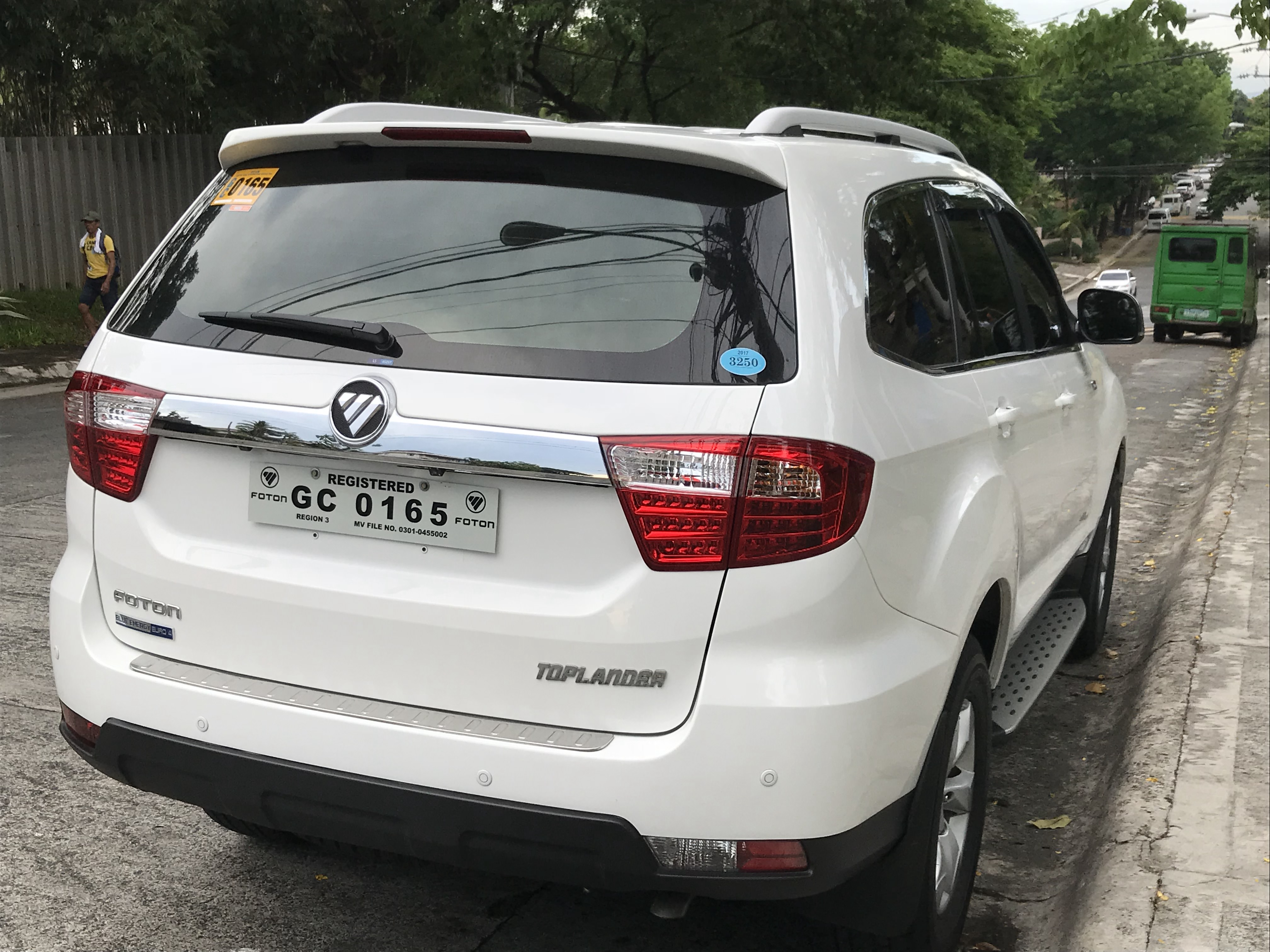 Rear side of Foton Toplander parked in Corinthian Gardens.